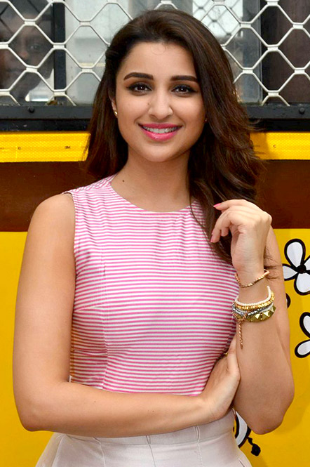 Parineeti Chopra inaugurates a school on wheels in Sep 26, 2016